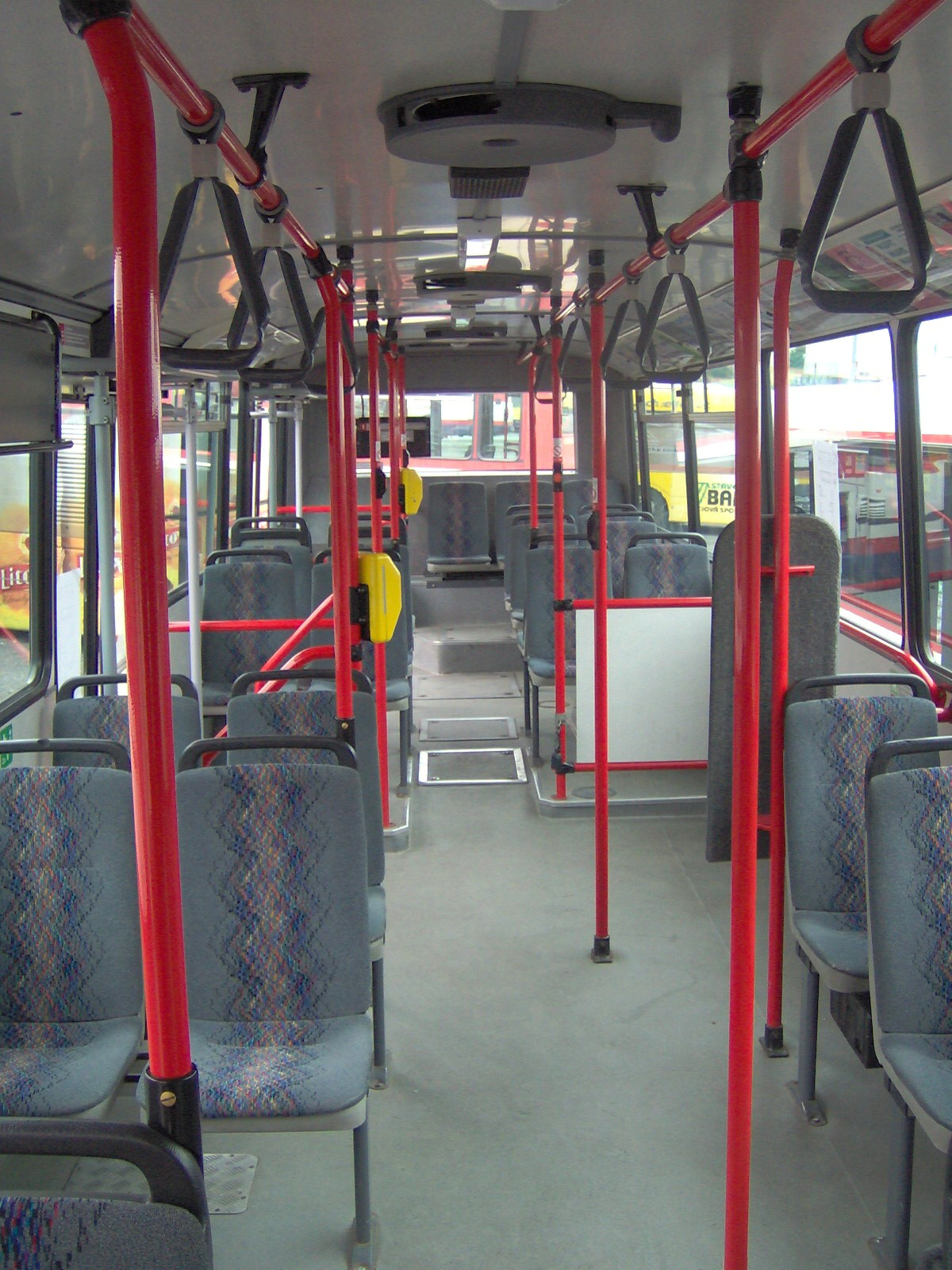 Karosa B 952 in bus depot, Olomouc, Czech Republic.